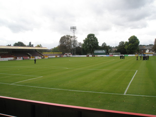 Looking from the East Stand down towards the High Street End Careful scrutiny will reveal that there is no terracing at the far end- the only Football League Ground to be so arranged. Pub quiz fanatics please note!